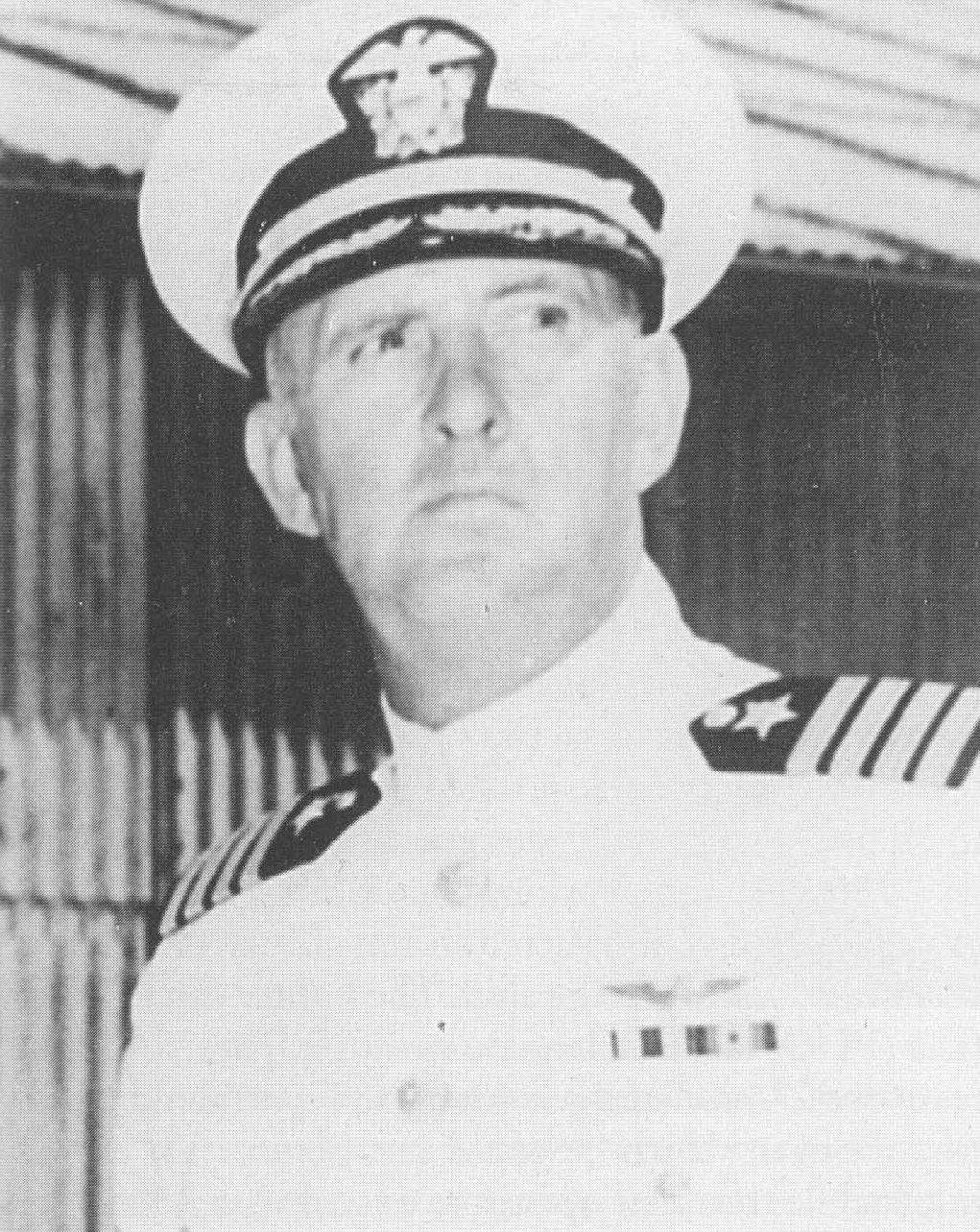 United States Navy Vice Admiral Elliott Buckmaster, here photographed as a Captain four months before becoming skipper of the USS Yorktown (CV-5).